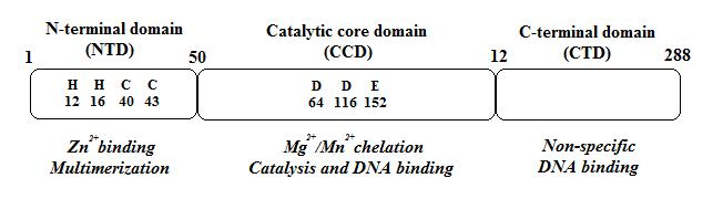 Schematic of the domain structure of HIV integrase. Three structural and functional domains have been identified. The N-terminal domain (residues 1-50) contains a HHCC zinc finger motif and is required for dimerization and binding of cellular factors. The catalytic core domain (residues 51-212) contains the conserved residues forming a catalytic triad (D64, D116 and E152) that are required to coordinate essential divalent metal ions (Mn2+ or Mg2+). The C-terminal domain (residues 213-288) binds DNA non-specifically.